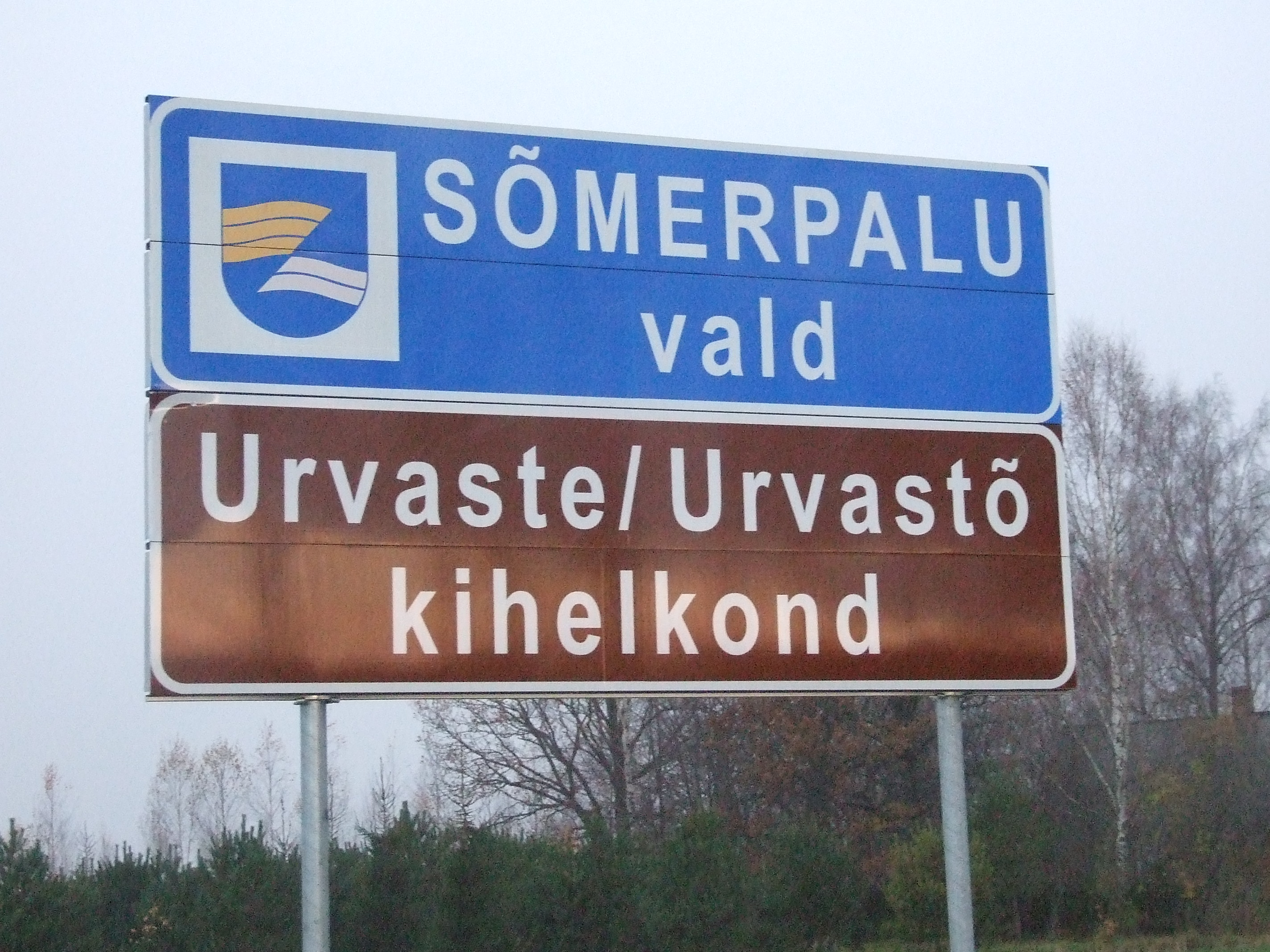 Estonian-Voro bilingual parish sign (brown). Võro: Eesti-võro katõkeeline kihlkunnasilt (pruun).